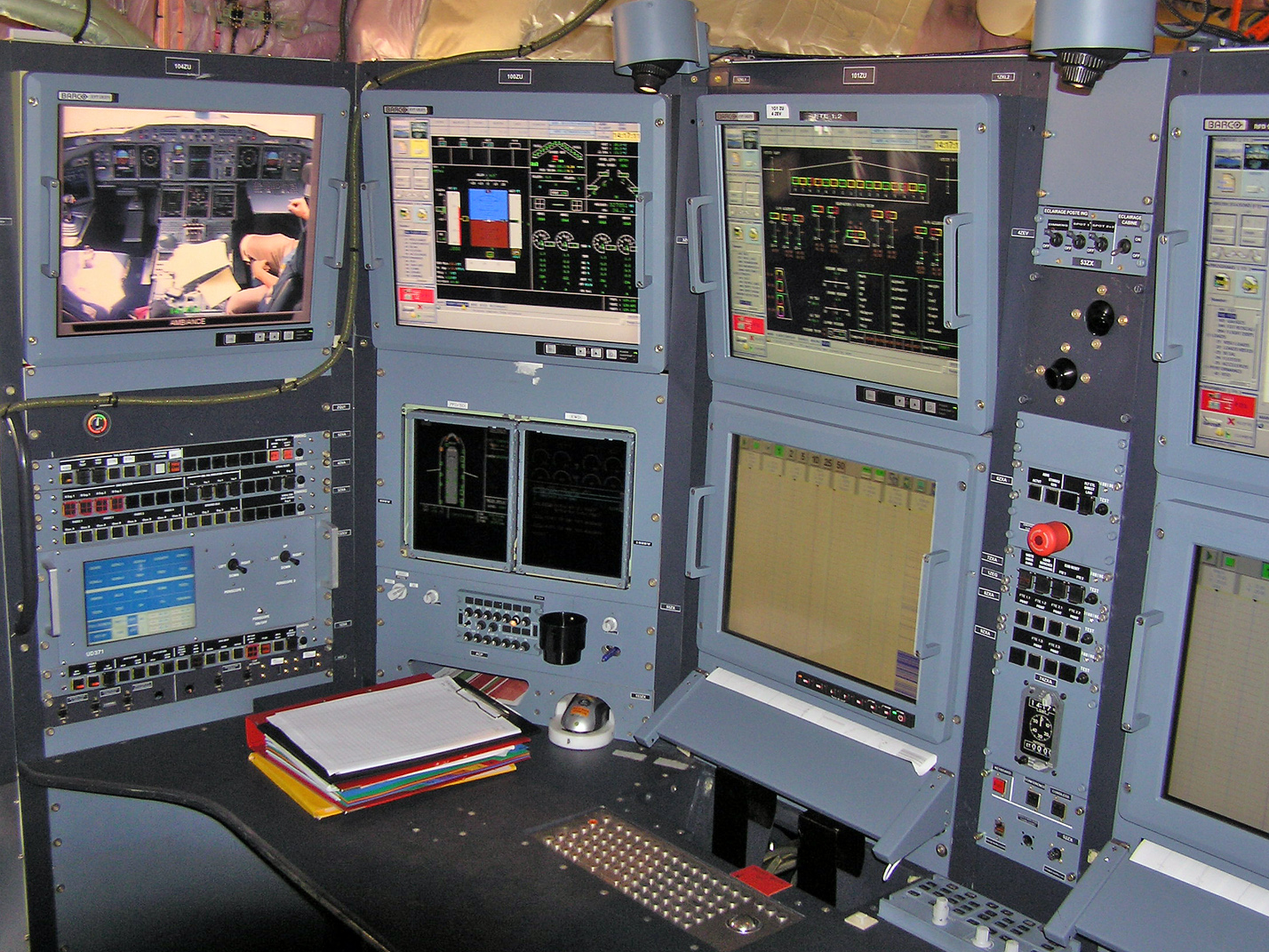 Flight test engineer's station on the lower deck of Airbus A380 test aircraft F-WWOW (serial 001). The screen on the upper left enables the test engineer to maintain an overview of activity in the cockpit. Taken during a tour at the 2006 Farnborough International Airshow.